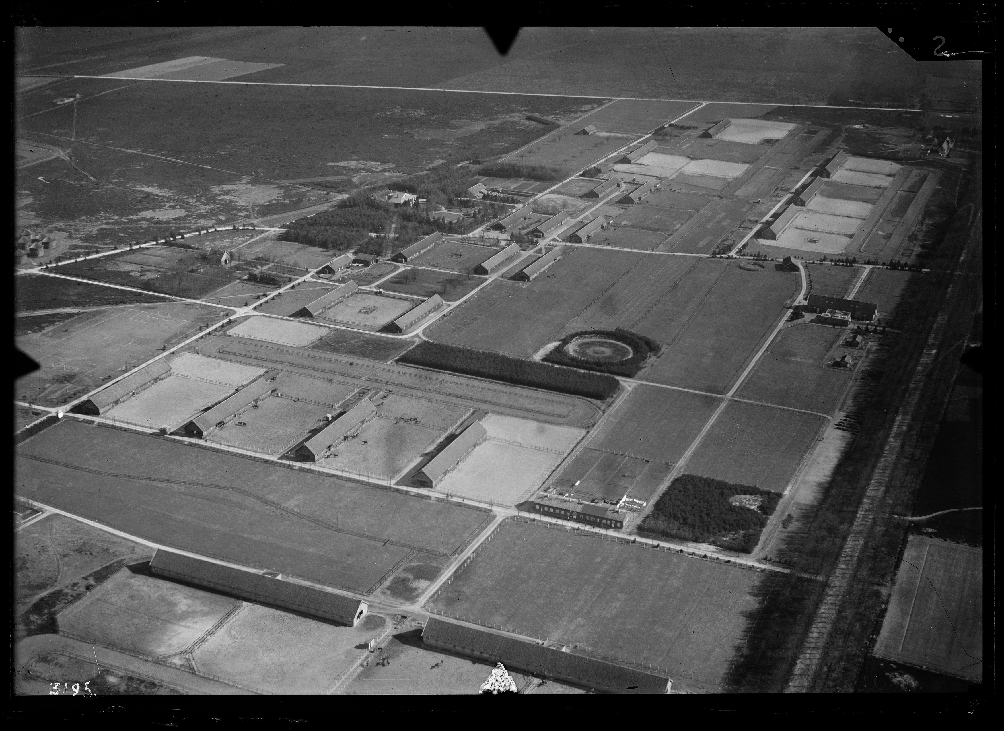 Aerial photograph of army barracks Nieuw-Milligen, Uddel, Apeldoorn, The Netherlands